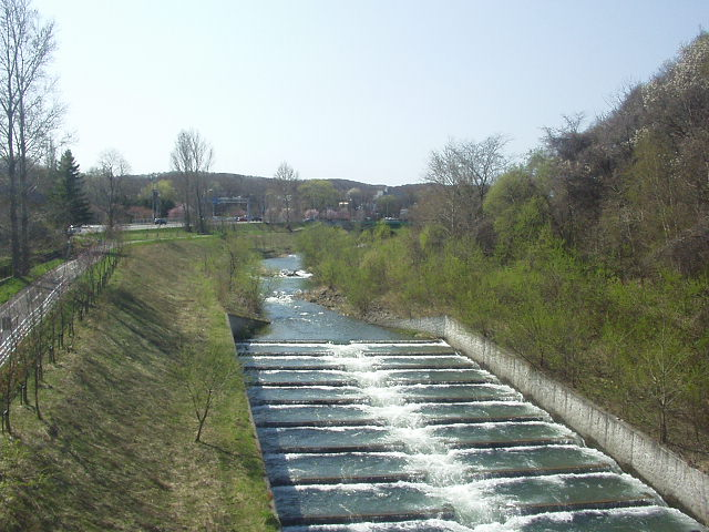 Makomanai River. Minami ward, Sapporo, Hokkaidō prefecture, Japan.